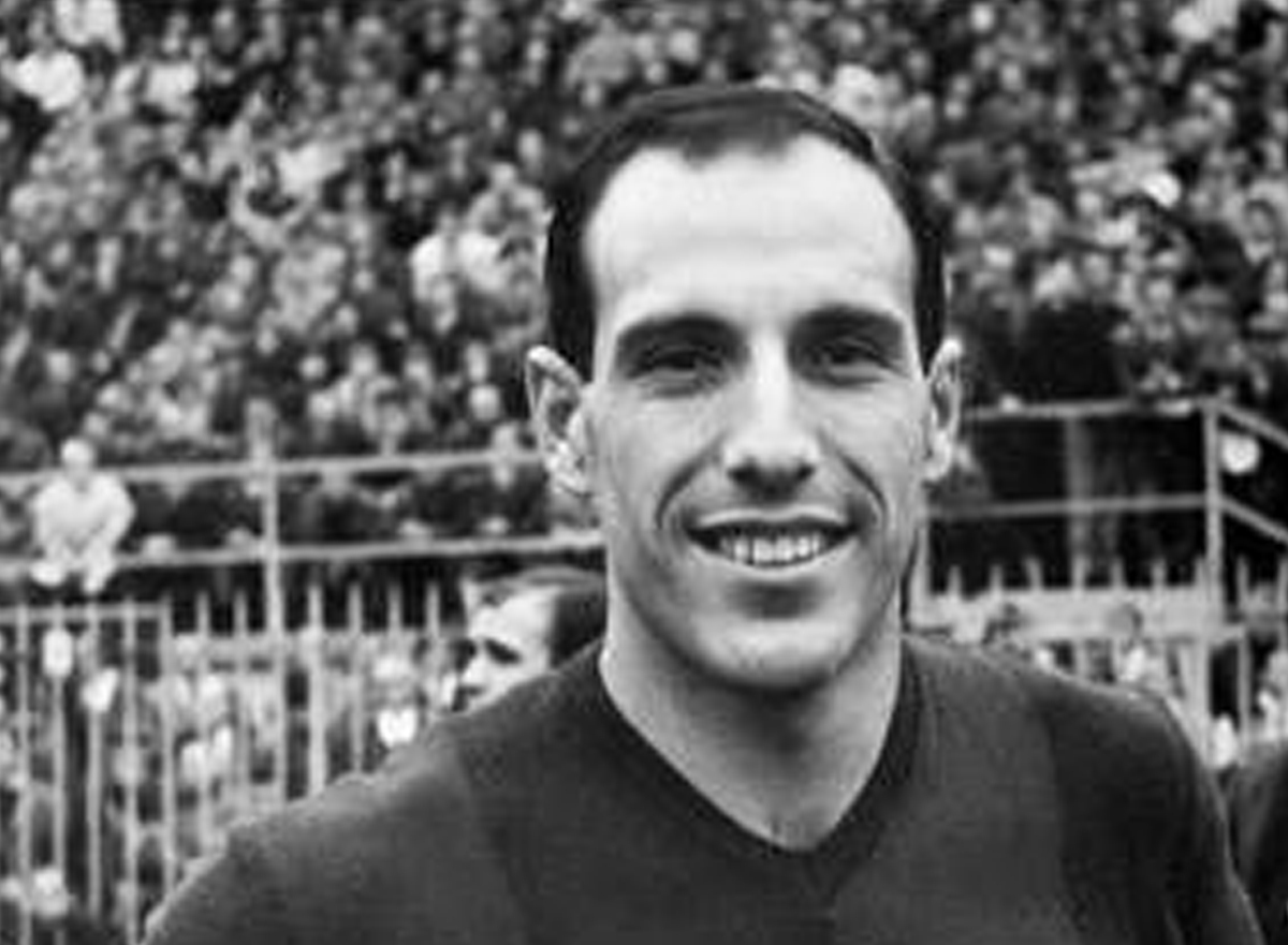 The Italian association football player Ezio Pascutti of Bologna FC at San Siro Stadium in Milan during the 1963-64 Serie A season